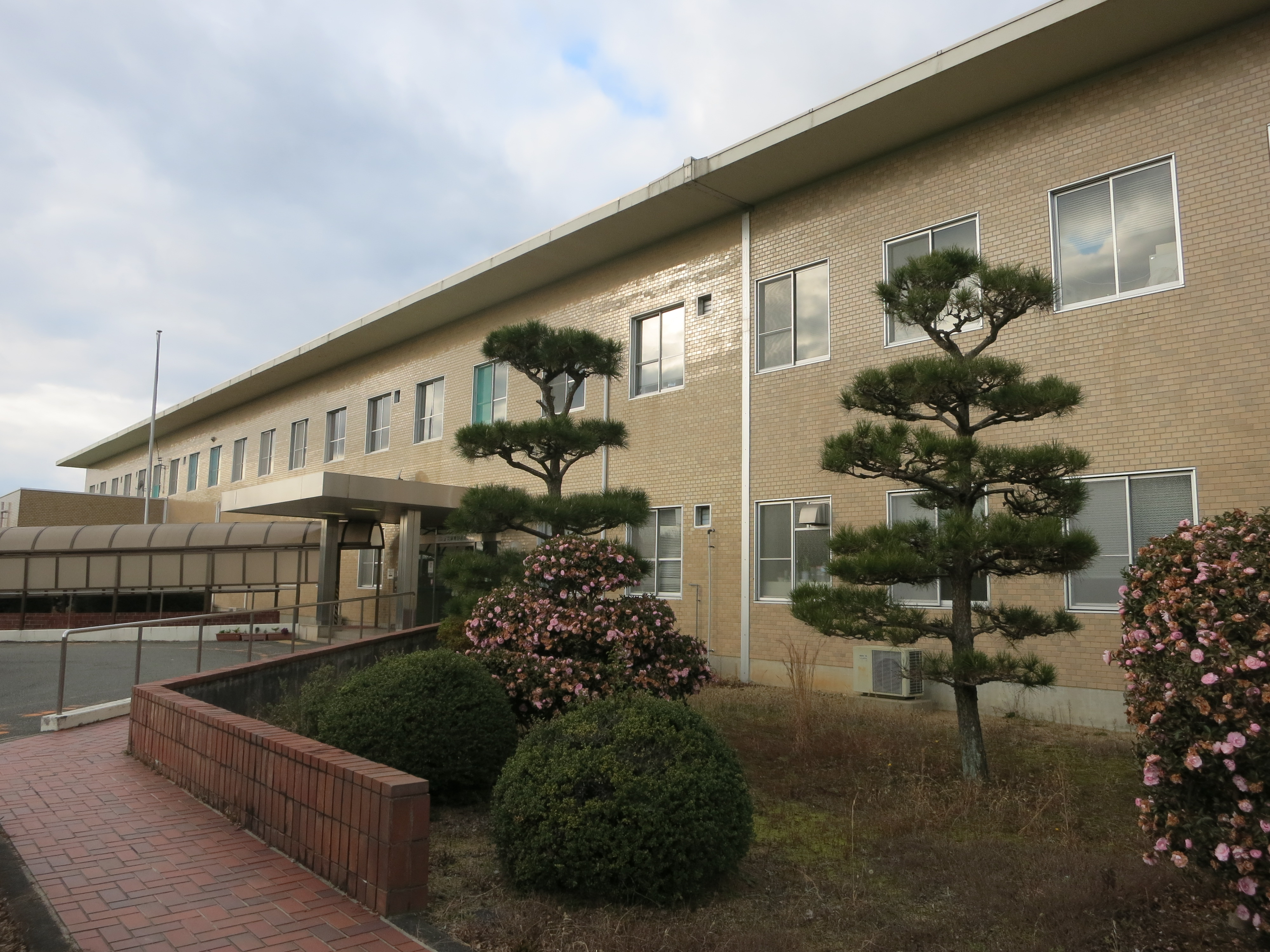 National Hospital Organization Hyogo Aonohara National Hospital